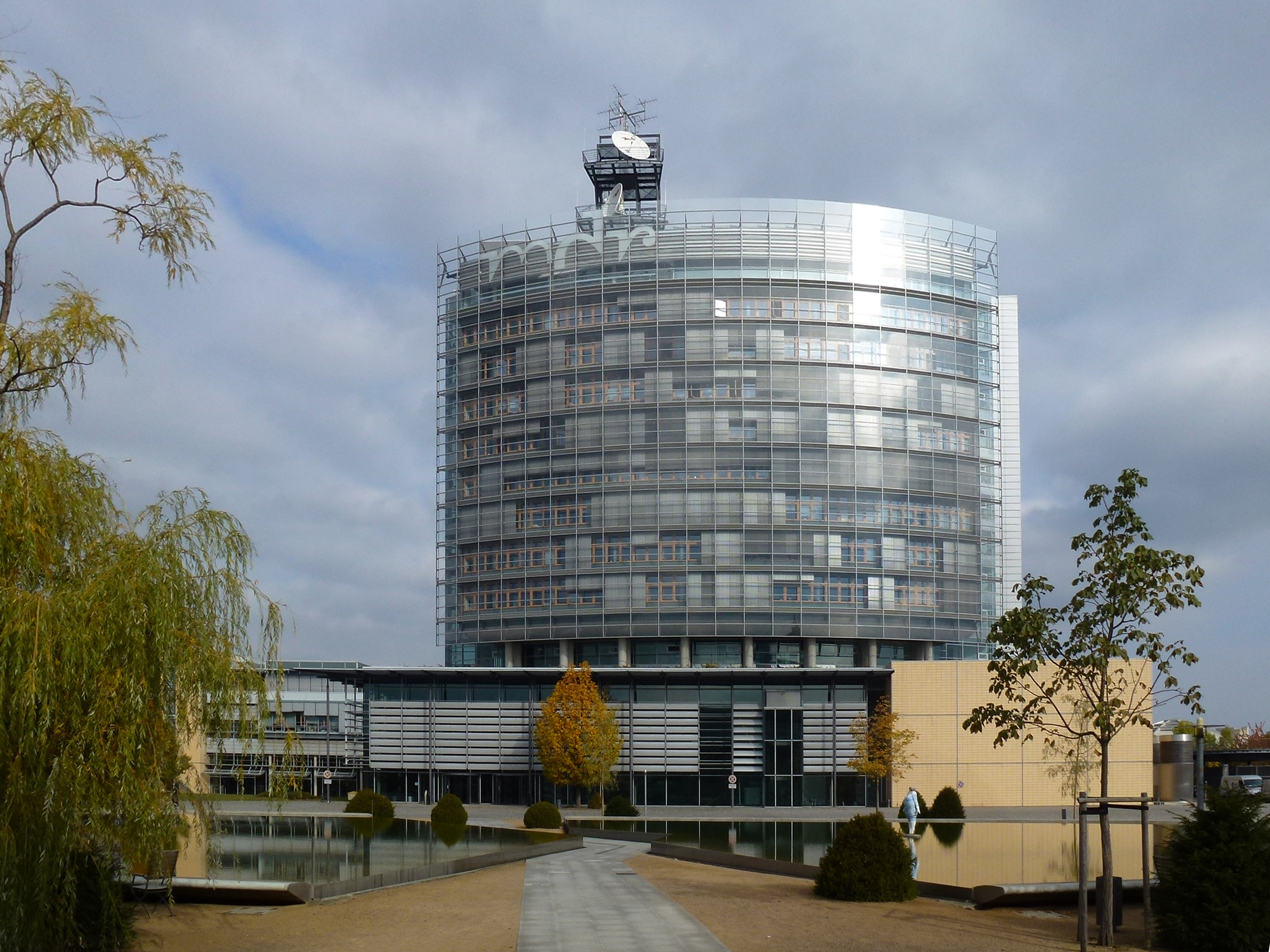 Mitteldeutscher Rundfunk (MDR) Leipzig Main-building